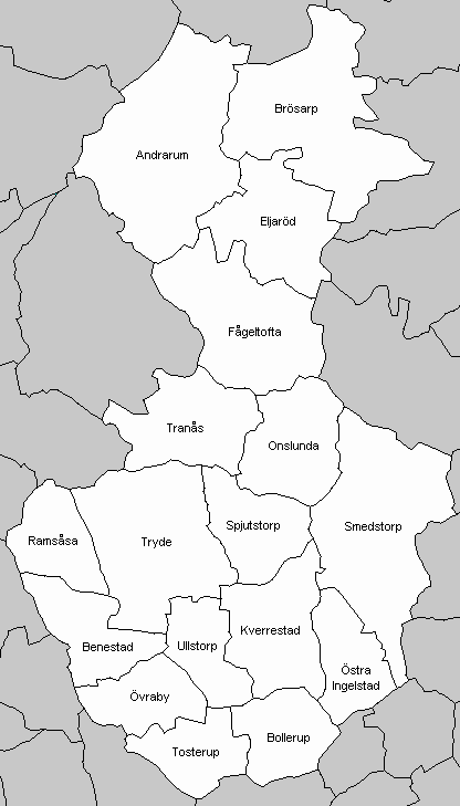 socken in Tomelilla